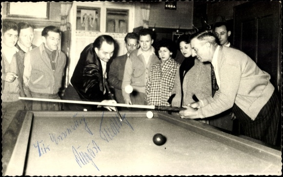 August Tiedtke, german carom billiards from Düsseldorf, World and European Champion